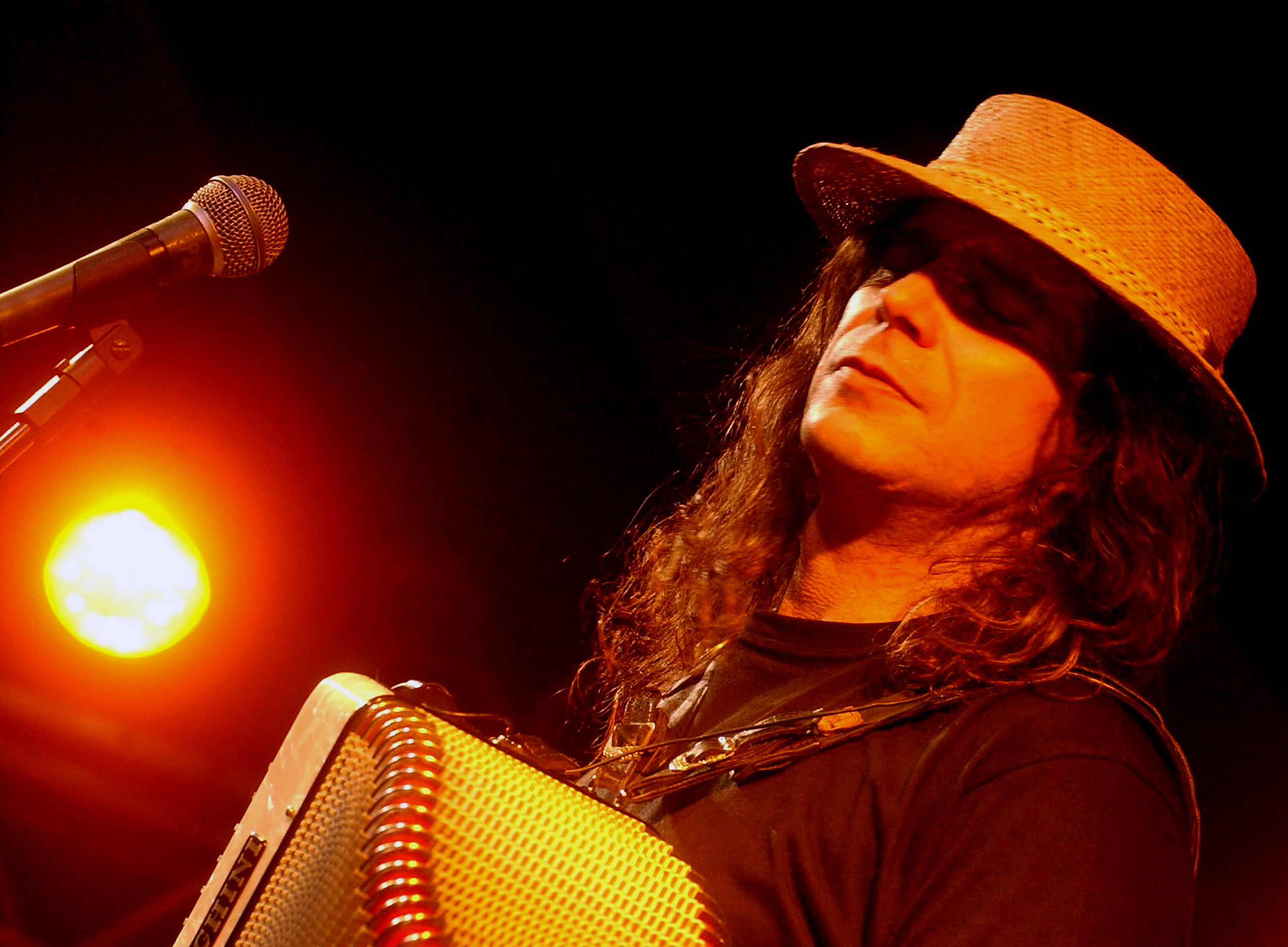 Musician Renato Borghetti, with an accordion during a performance at the first "Encontro Sul-Americano de Culturas Populares" in Brasília (Brasil).